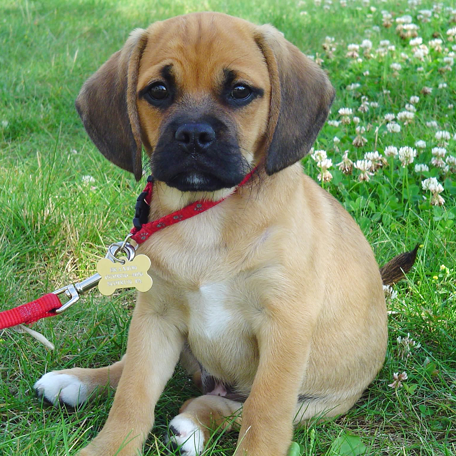 A puggle in Scotrun, PA